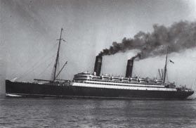 RMS Caronia (1905) was a Cunard Line passenger liner from 1905 -1932. She served as an armed merchant cruiser and troopship during World War I.